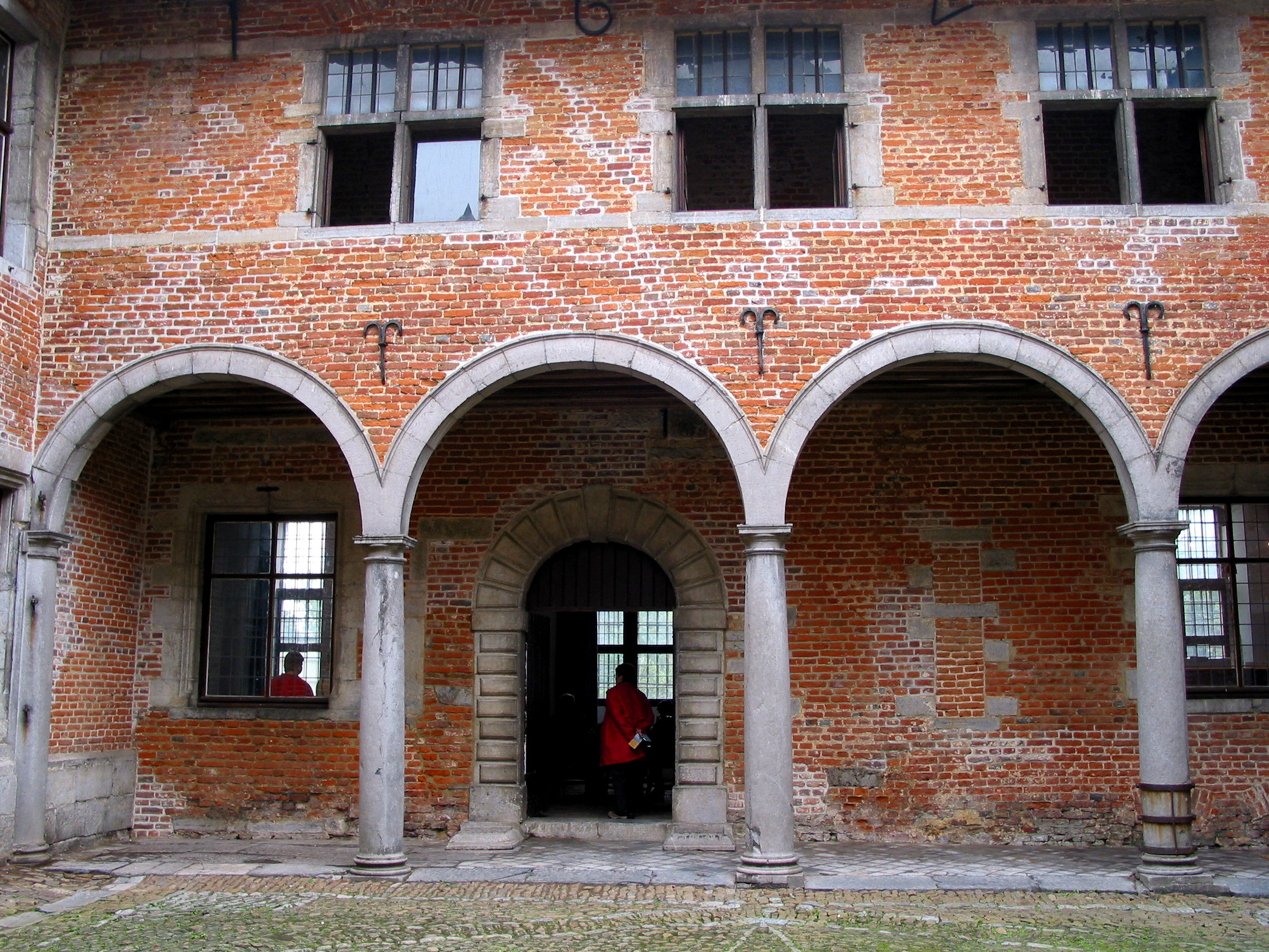 Noville-les-Bois (Belgium), internal court of the Fernelmont castle (1621).